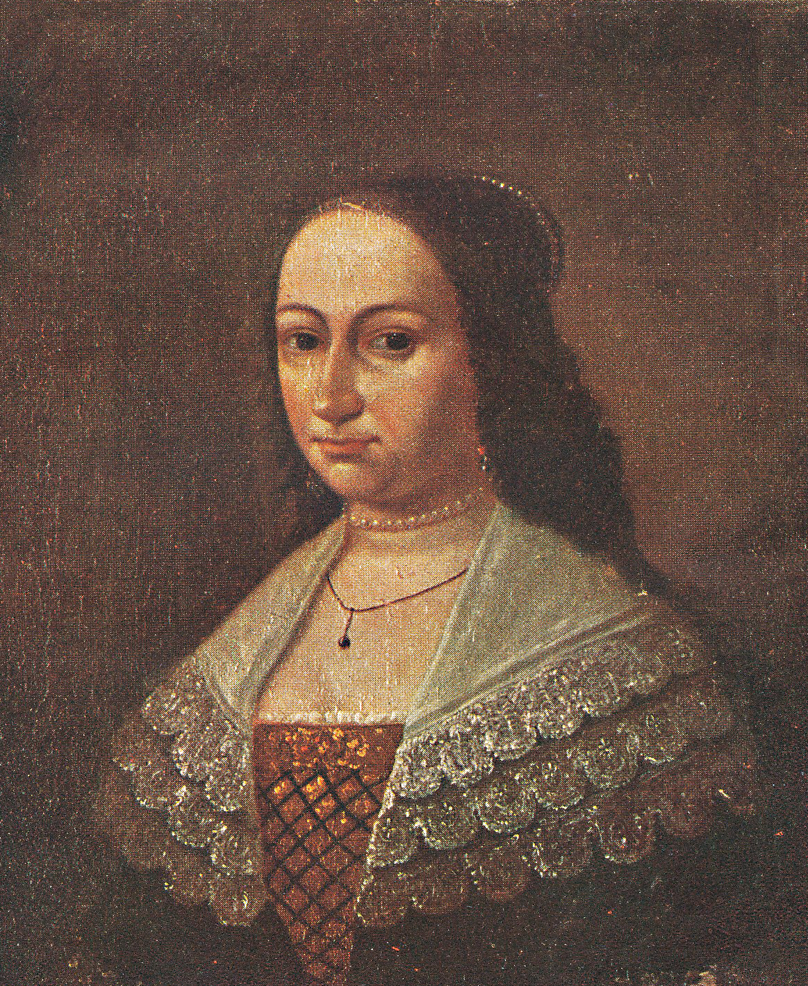 Margravine Louise Charlotte of Brandenburg (1617-1676), Duchess consort of Courland.